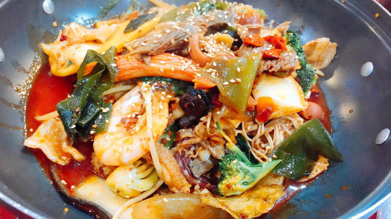 Delicious Chinese food